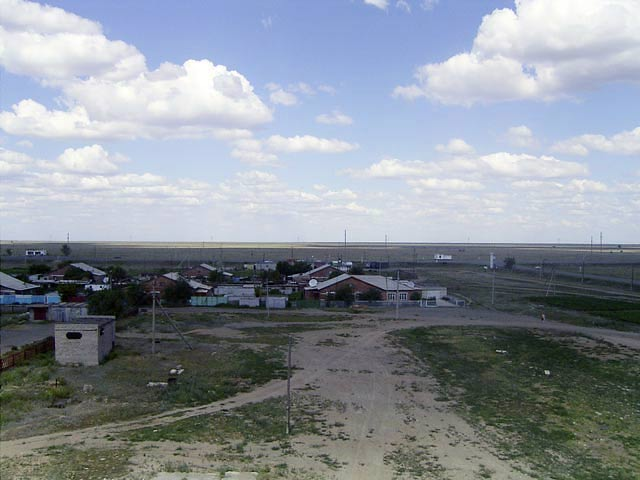 Town of Kalkaman in Aksu region, oblysy Pavlodar, Kazakhstan